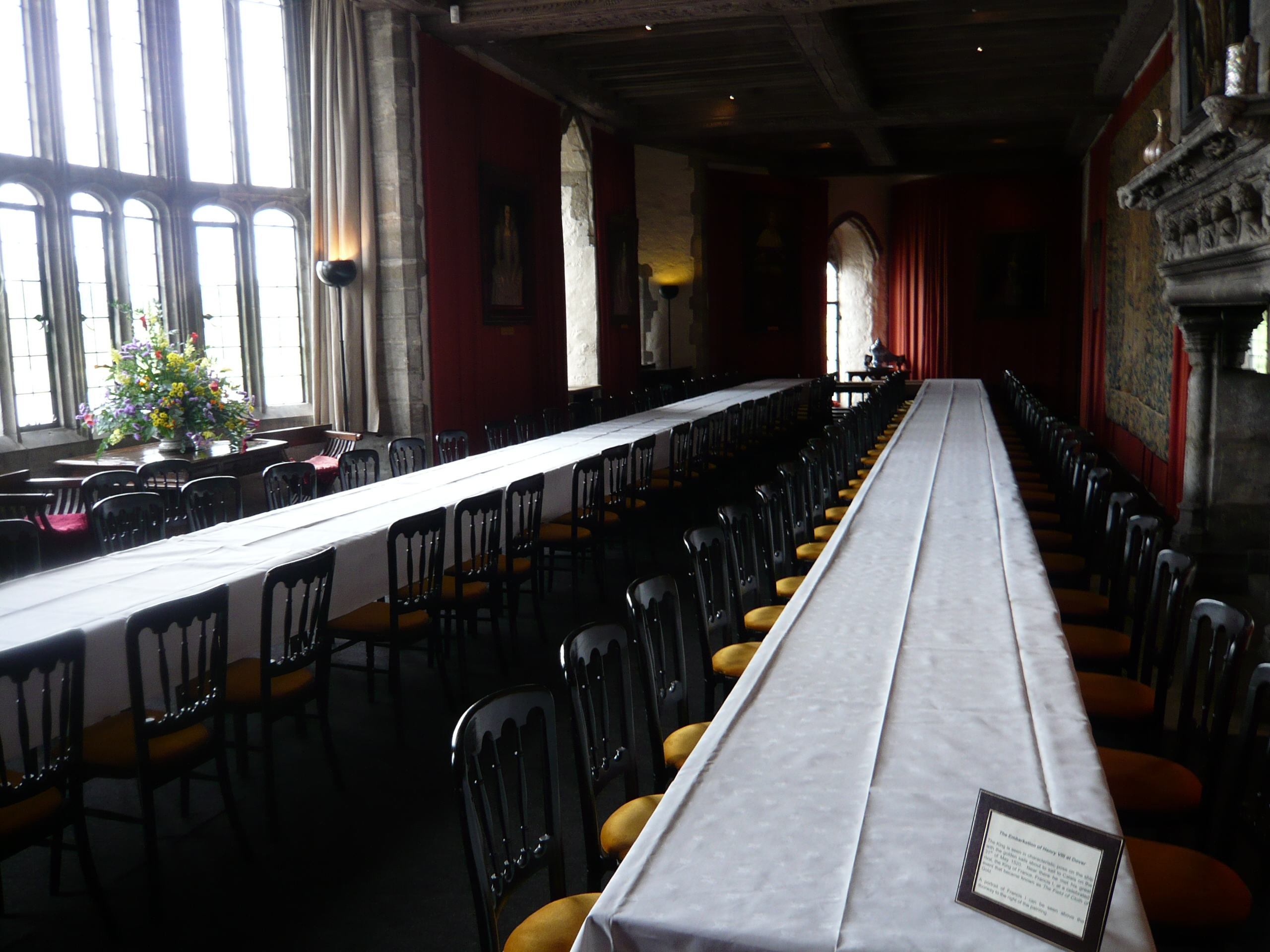 Leeds Castle, Henry VIII Banqueting Hall